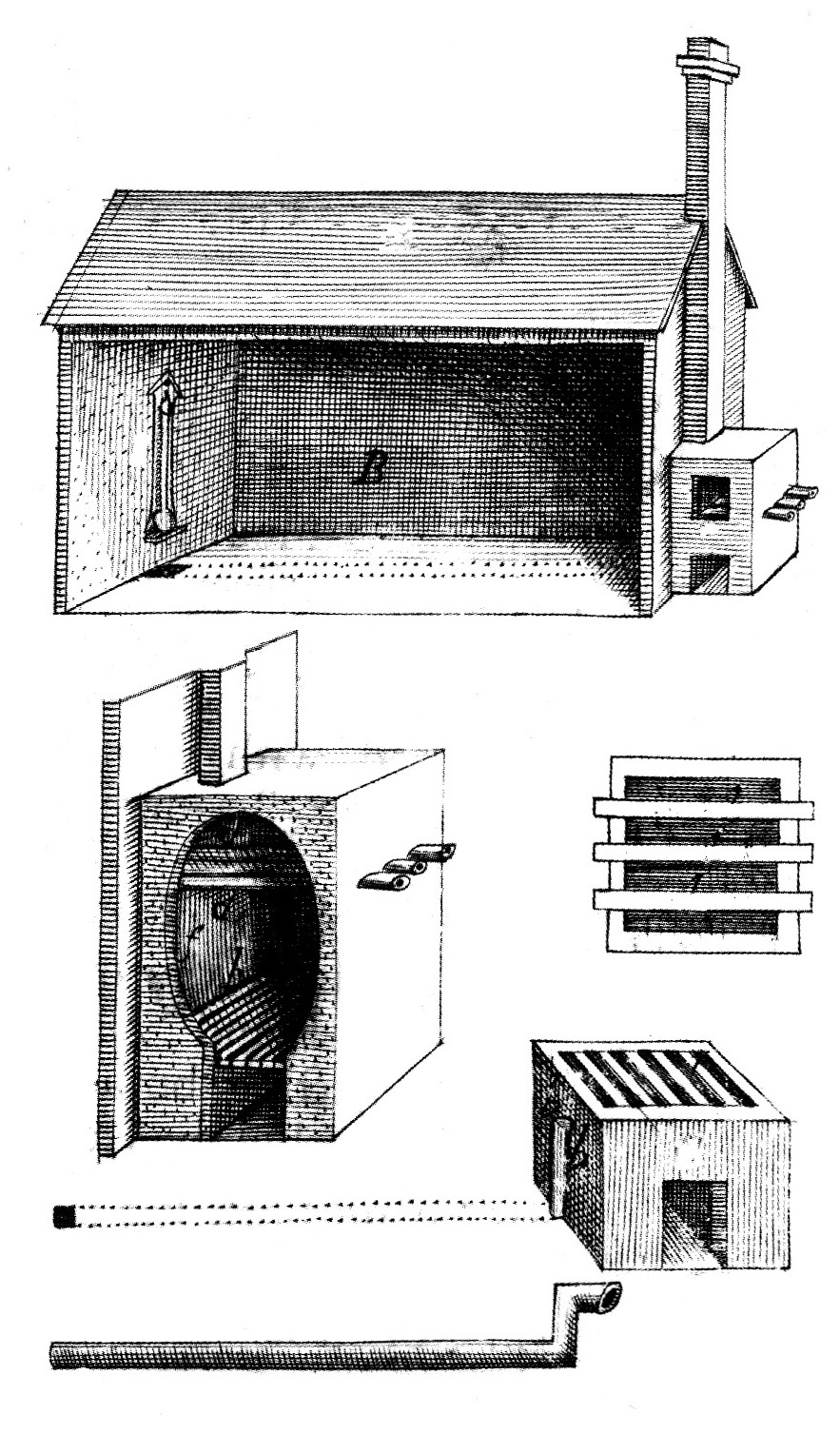 Evelyn's greenhouse from XVII century